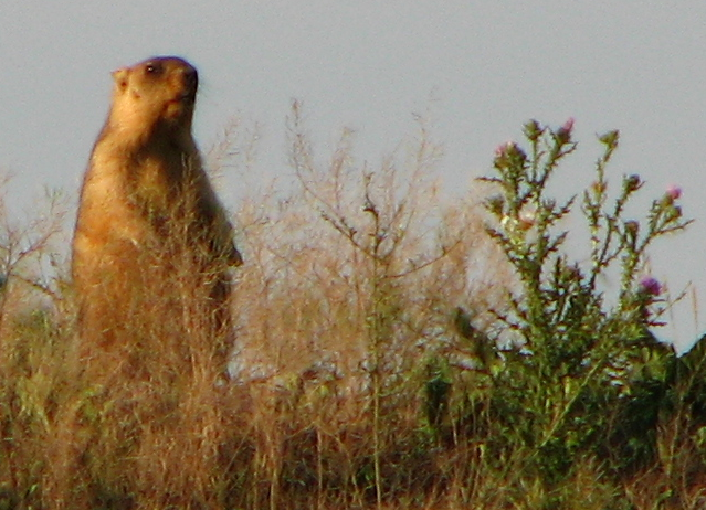 Marmota bobak among the Don steppe.